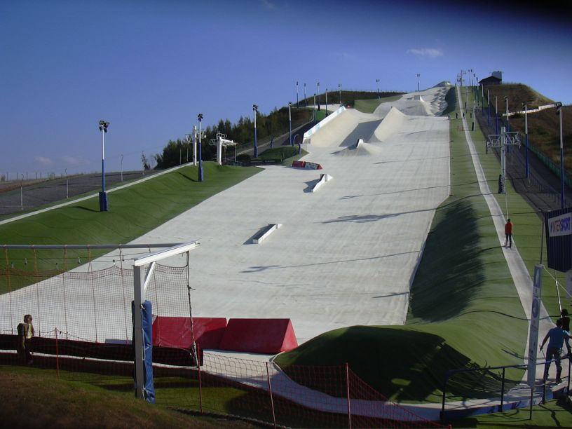 Dry ski slope on a slag heap in Nœux-les-Mines (Pas-de-Calais, France).